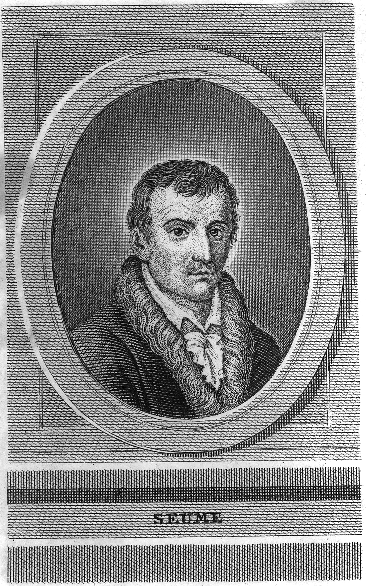 Portrait of Johann Gottfried Seume, German writer. Engraving, artist unknown. The portrait is accurate, as far as I can tell from comparison with other portraits.